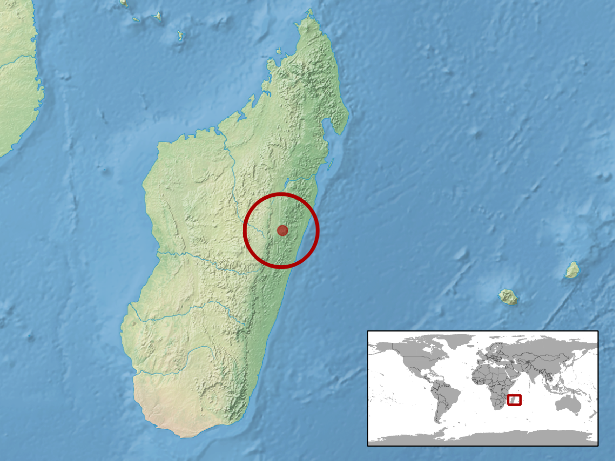 geographic distribution of Phelsuma flavigularis (Native: Madagascar)